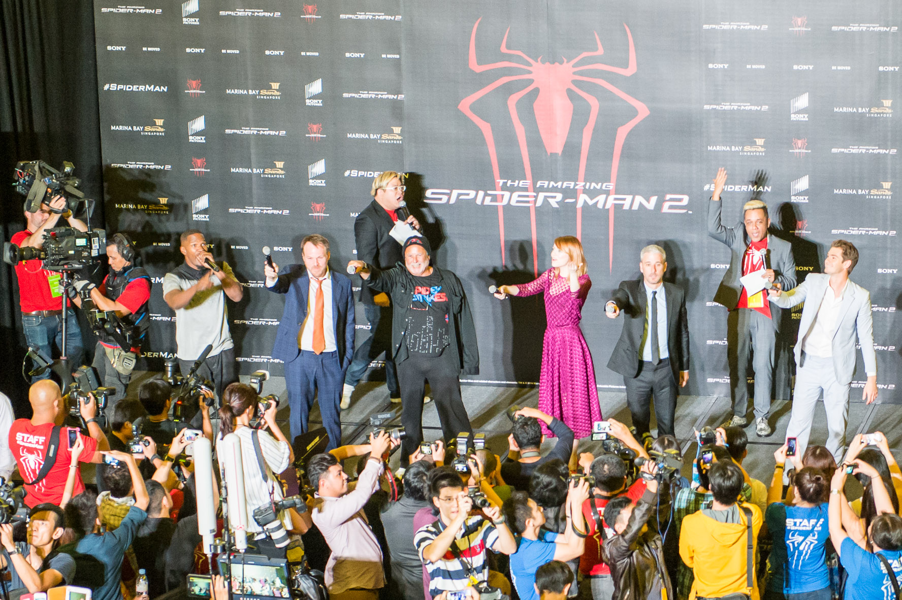 Cast at the launch of the 2014 event in Singapore, Marina Bay